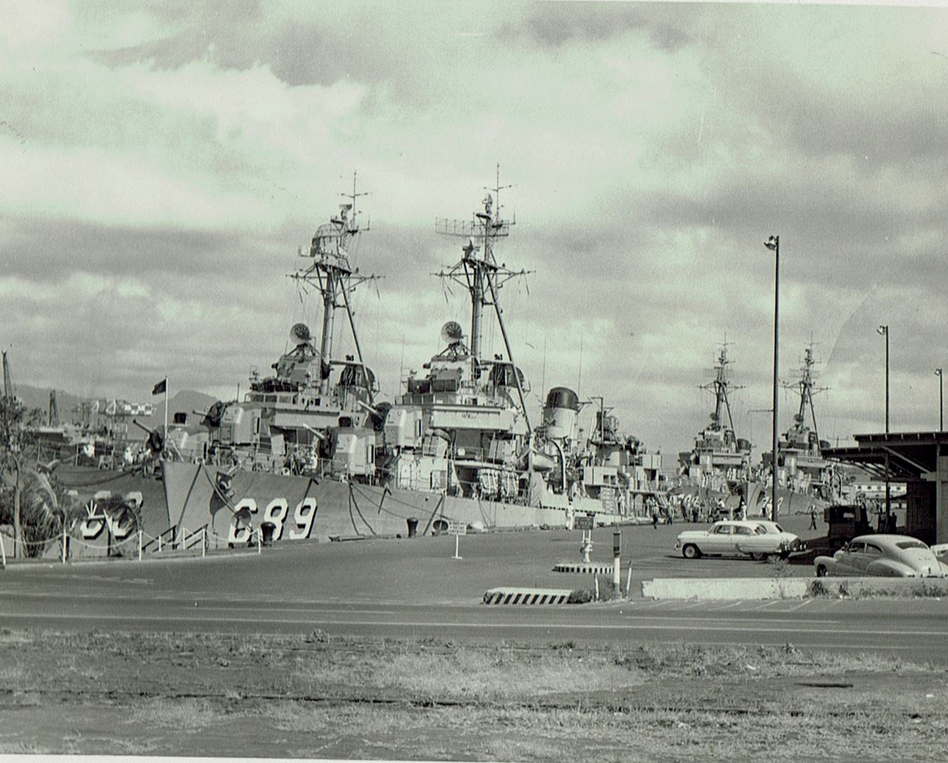 The U.S. Navy destroyer USS Wadleigh (DD-689) at Naval Station Newport, Rhode Island (USA), circa in 1952.